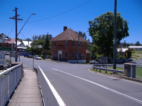 View of the old bank of NSW from Princes Highway Bridge, Cobargo, New South Wales. The photo was taken on 10/12/2005 by Paul Tyrrell. I intend it to be used in the article on Cobargo and perhaps for articles relating to the Bega Valley Shire or to the New South Wales far south coast.